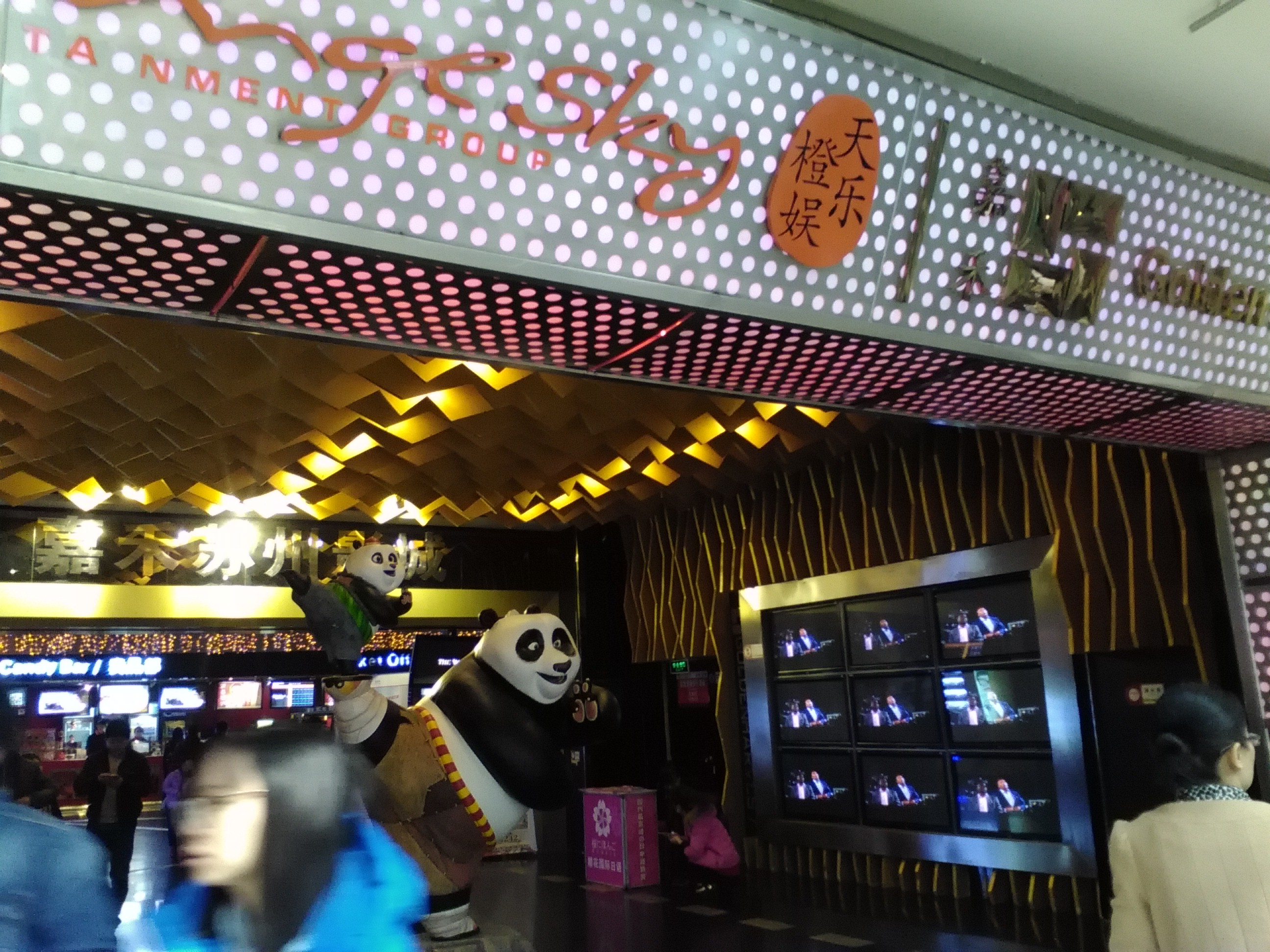 Golden Harvest Suzhou Incity